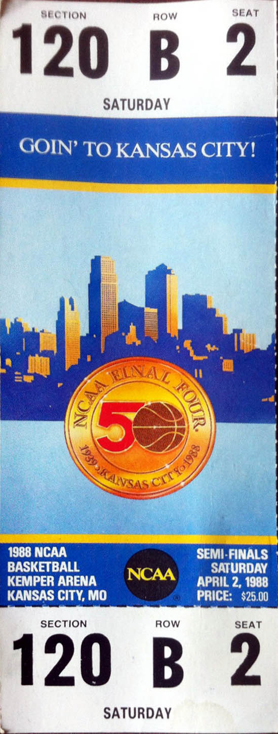 A ticket for the Final Four of the 1988 NCAA Men's Division I Basketball Tournament featuring Kansas versus Duke and Arizona versus Oklahoma at Kemper Arena on April 2, 1988.